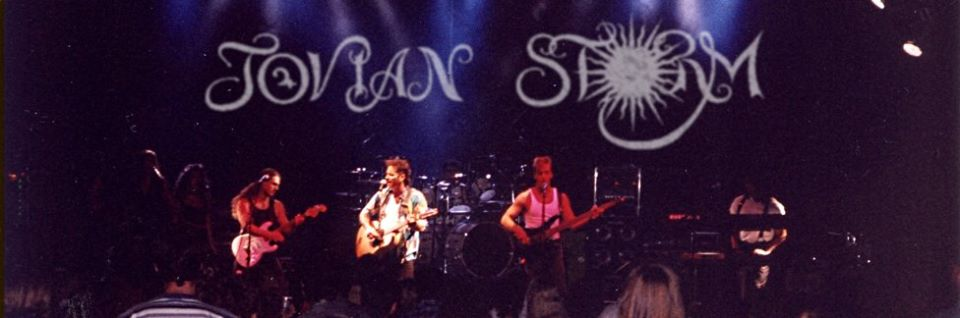 American progressive rock band Jovian Storm performing at the Coca-Cola Roxy Theater in Atlanta, GA, October 19, 1995.